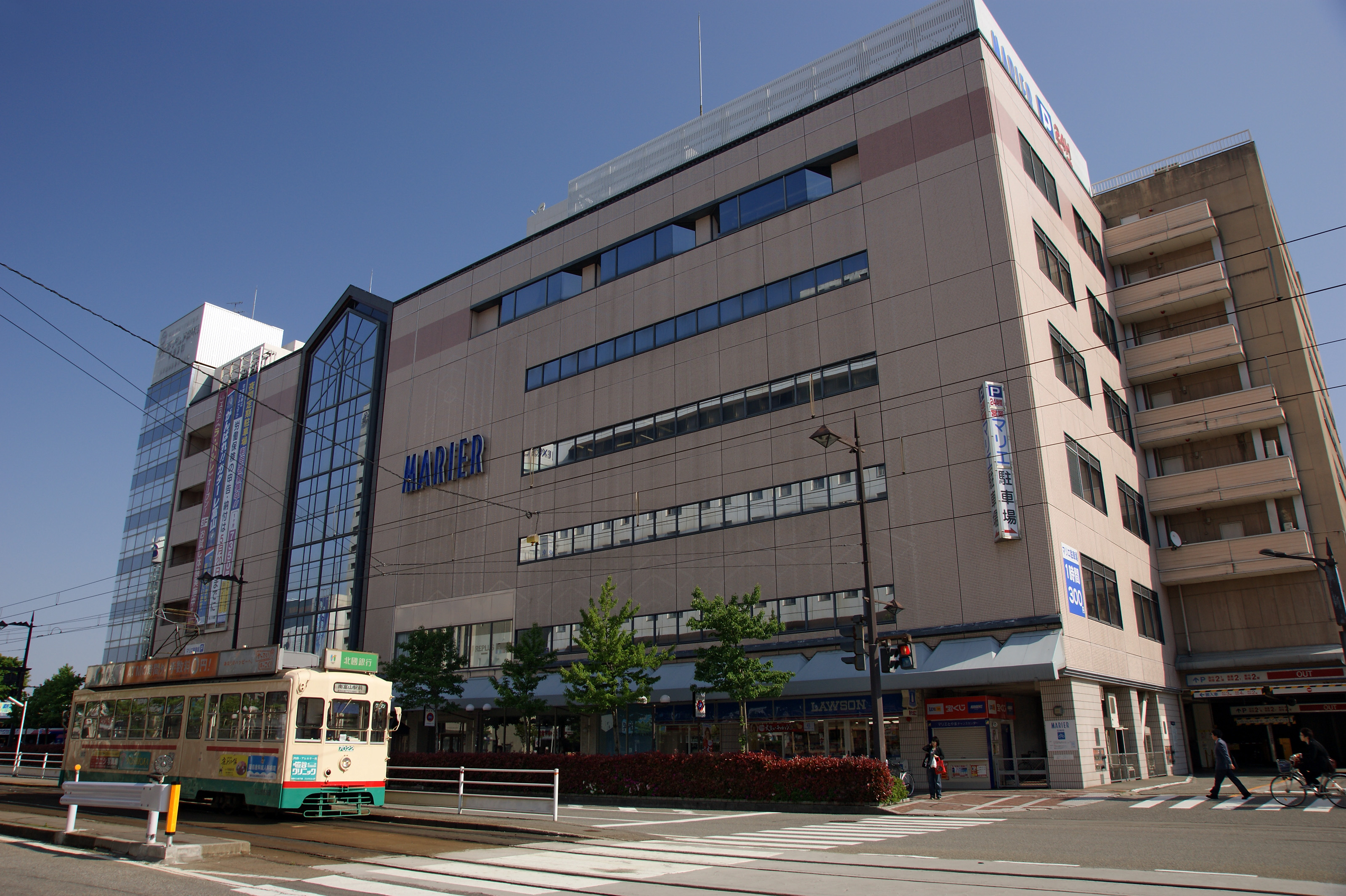 Marier in Toyama, Toyama prefecture, Japan